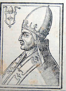 Pope Urbanus III